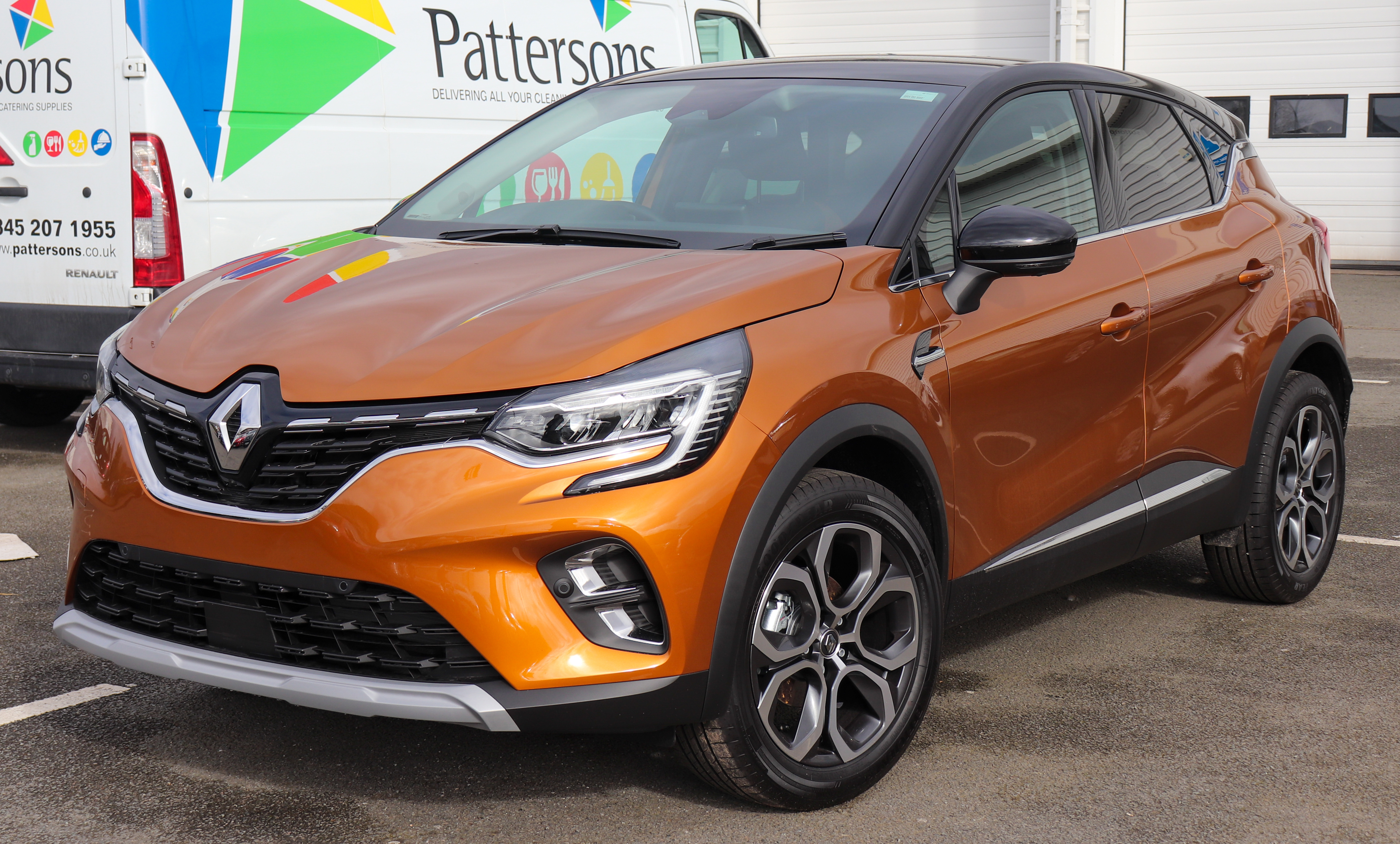 2020 Renault Captur S Edition Taken in Leamington Spa